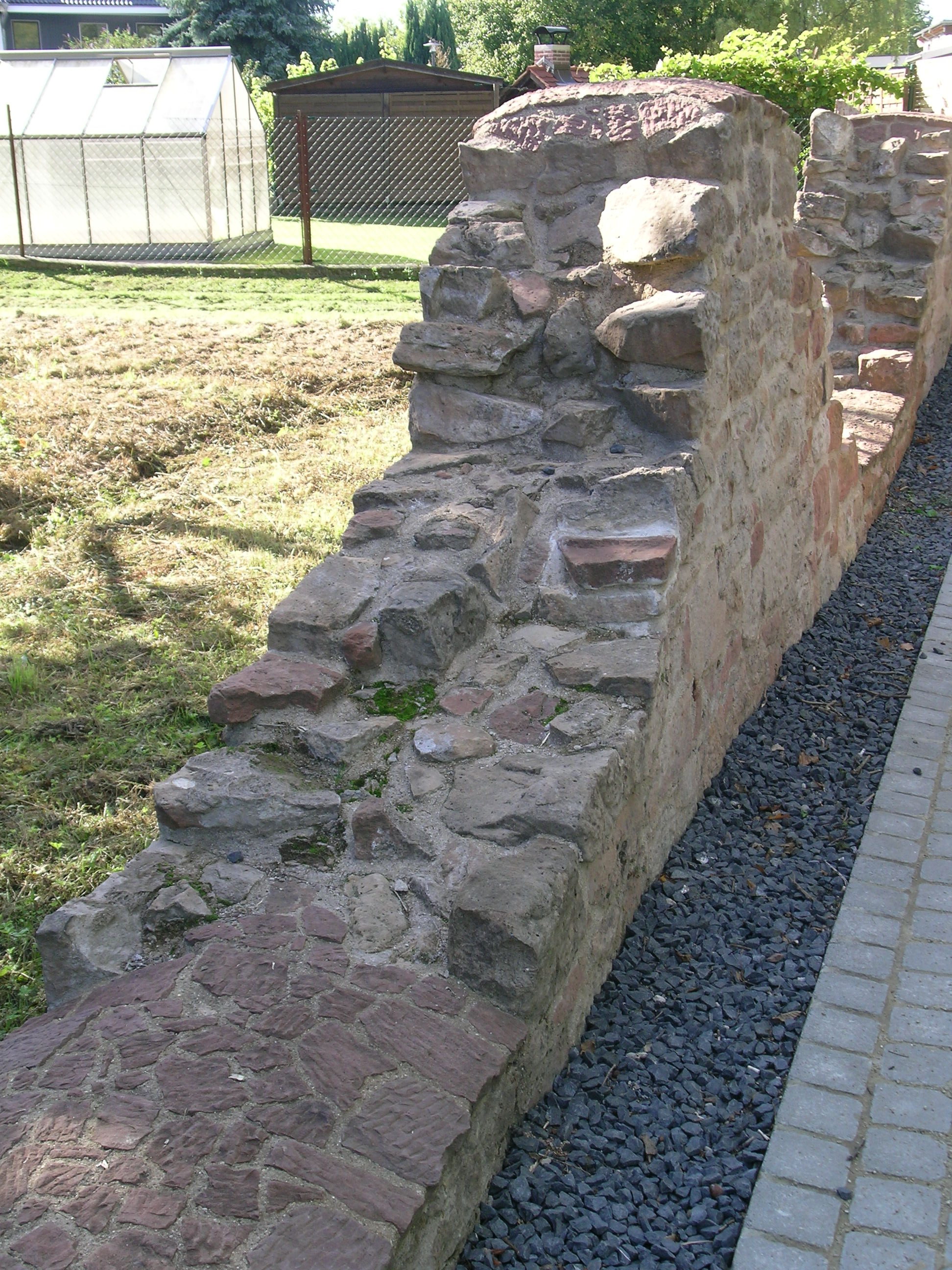 This is a photograph of an architectural monument.